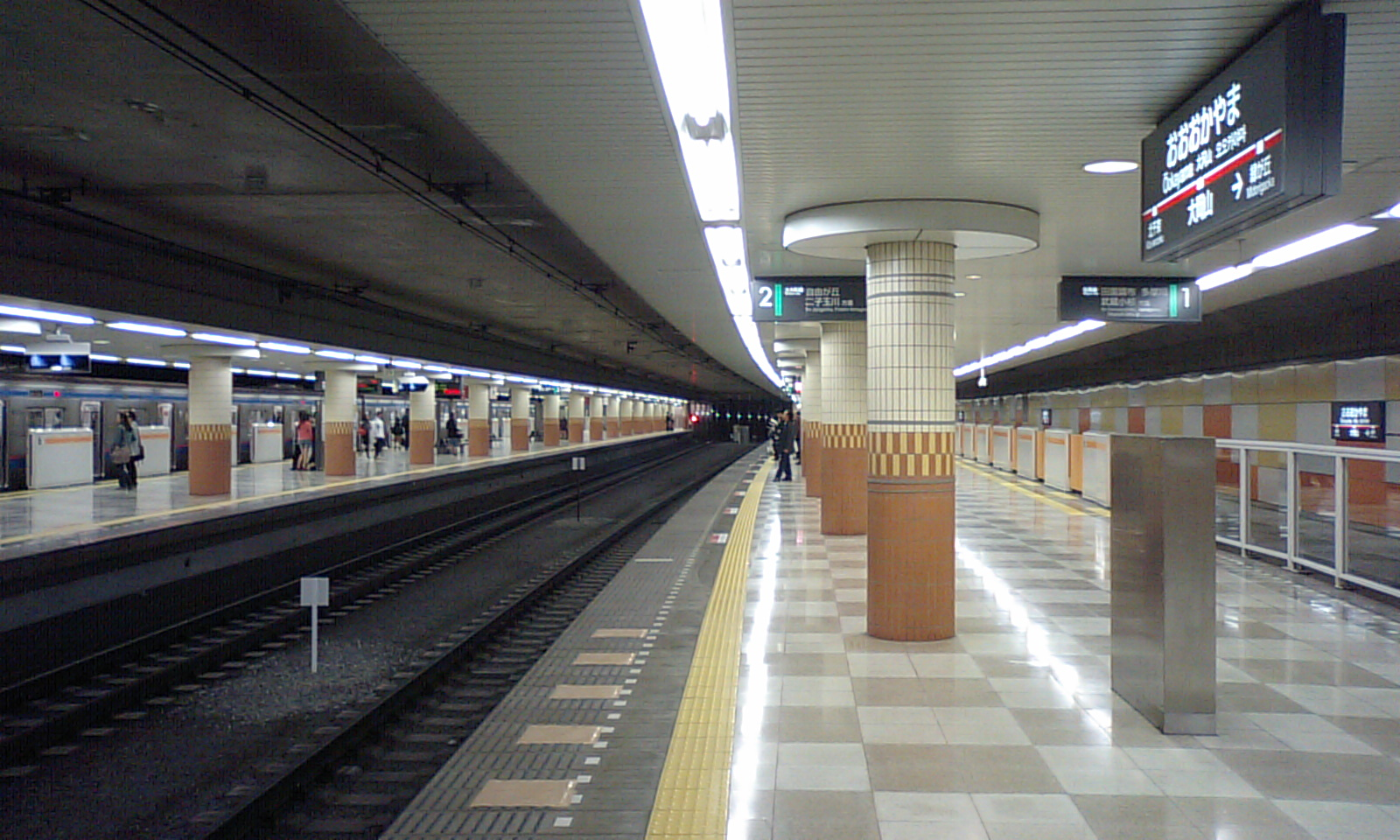 Platform of Ōokayama Station.